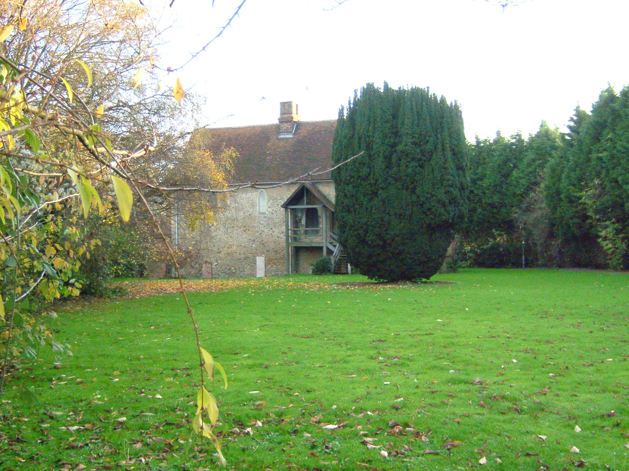 Temple Manor in autumn from the boundary wire. Temple Manor was built by the Knight's Templar in 1160, but is now situated in a industrial estate, next to a railway.